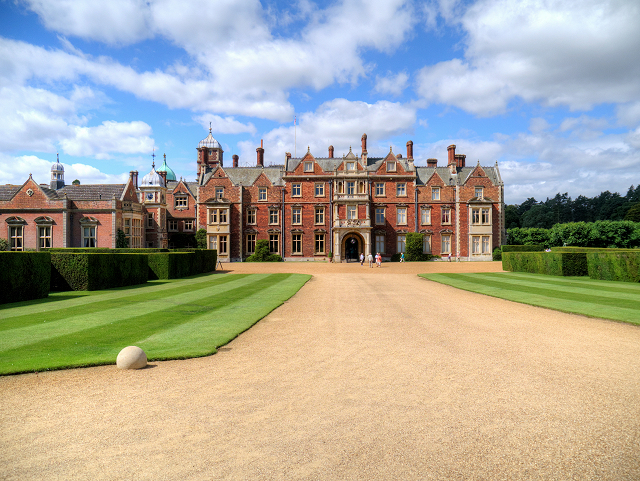 The East frontage of Sandringham House, Norfolk, England